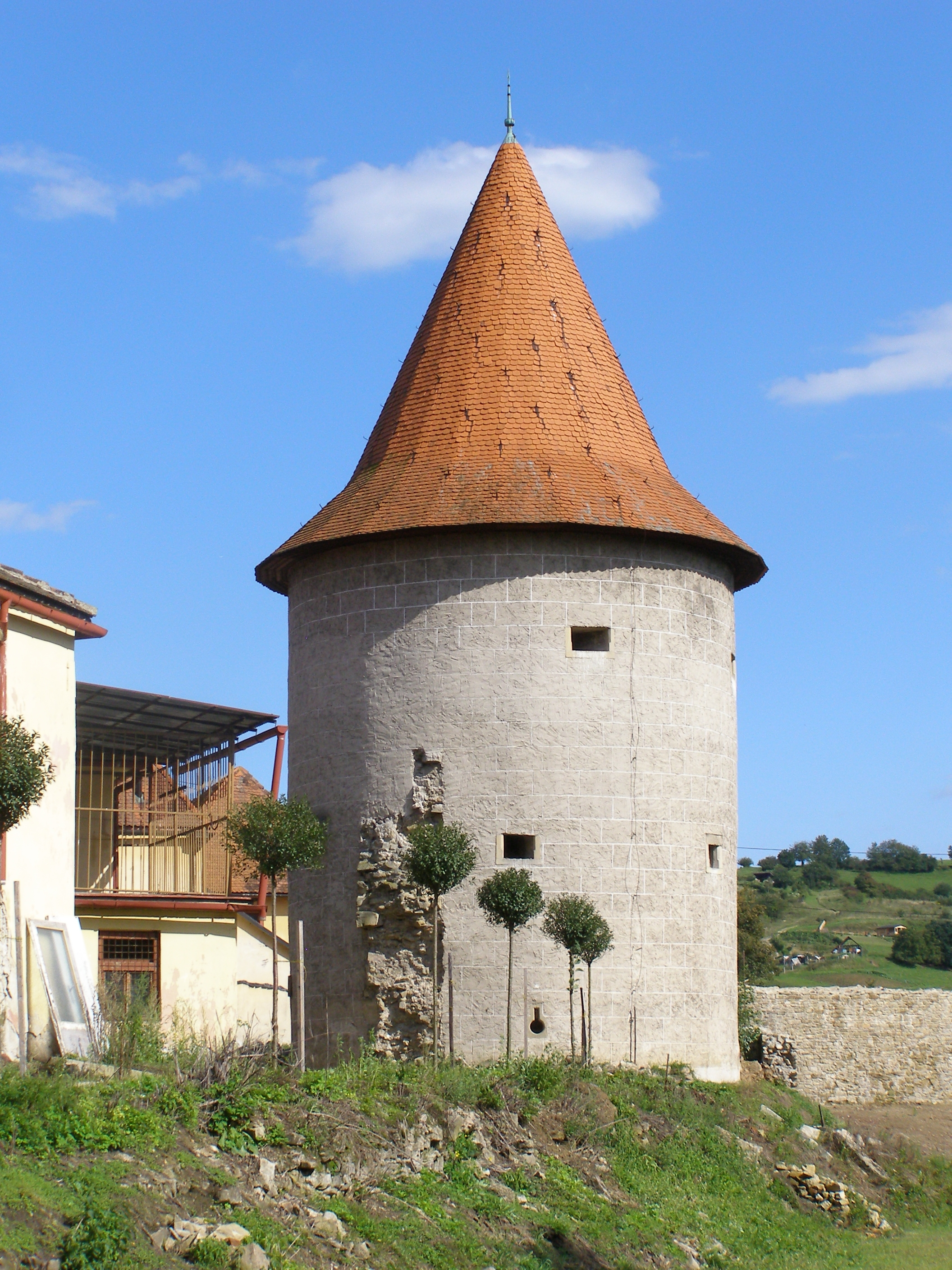 Bardejov - Cloister Tower